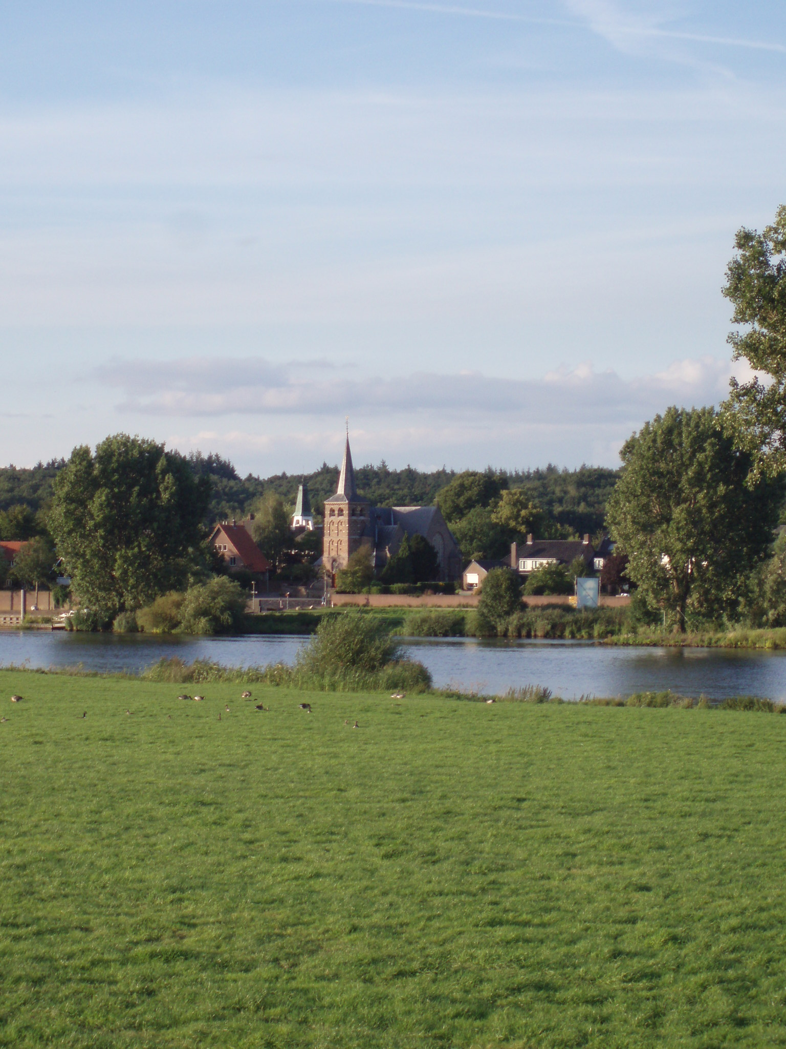 Mook at the Meuse River, Netherlands. See also: File:Mookatmeuse-1.jpg.